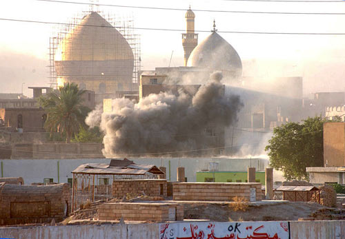 Smoke rises from a neighborhood in Samarra, Iraq, during Operation Baton Rouge.